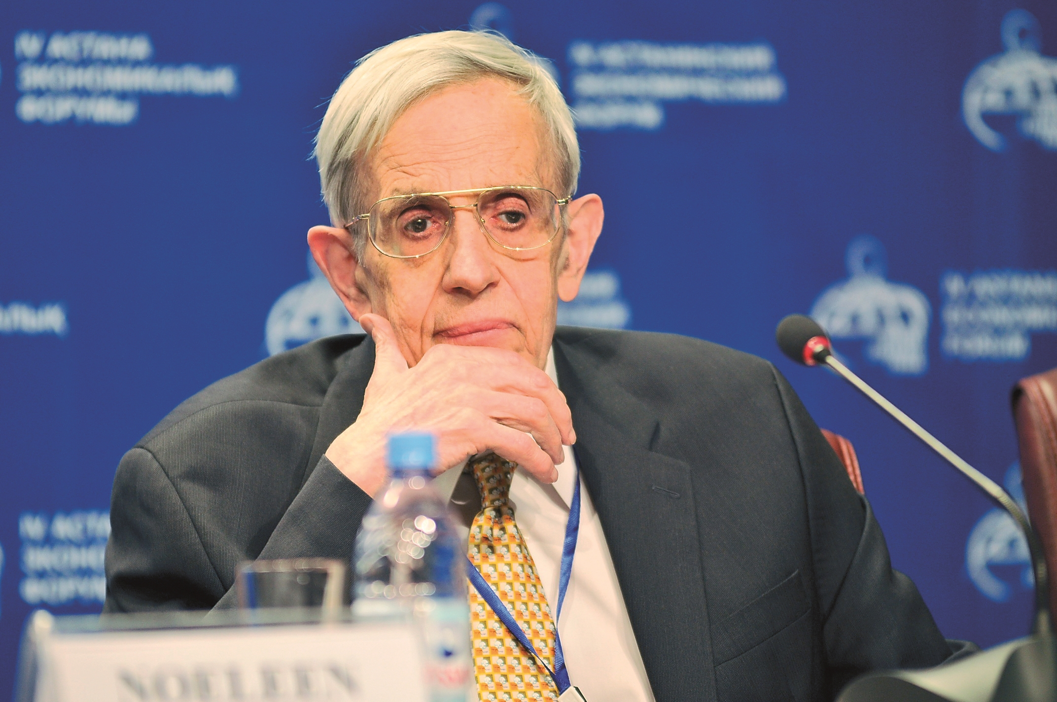 John Forbes Nash, Jr. (June 13, 1928 - May 23, 2015) was an American mathematician whose works in game theory, differential geometry, and partial differential equations have provided insight into the forces that govern chance and events inside complex systems in daily life. His theories are used in market economics, computing, evolutionary biology, artificial intelligence, accounting, politics and military theory. Serving as a Senior Research Mathematician at Princeton University during the latter part of his life, he shared the 1994 Nobel Memorial Prize in Economic Sciences with game theorists Reinhard Selten and John Harsanyi.